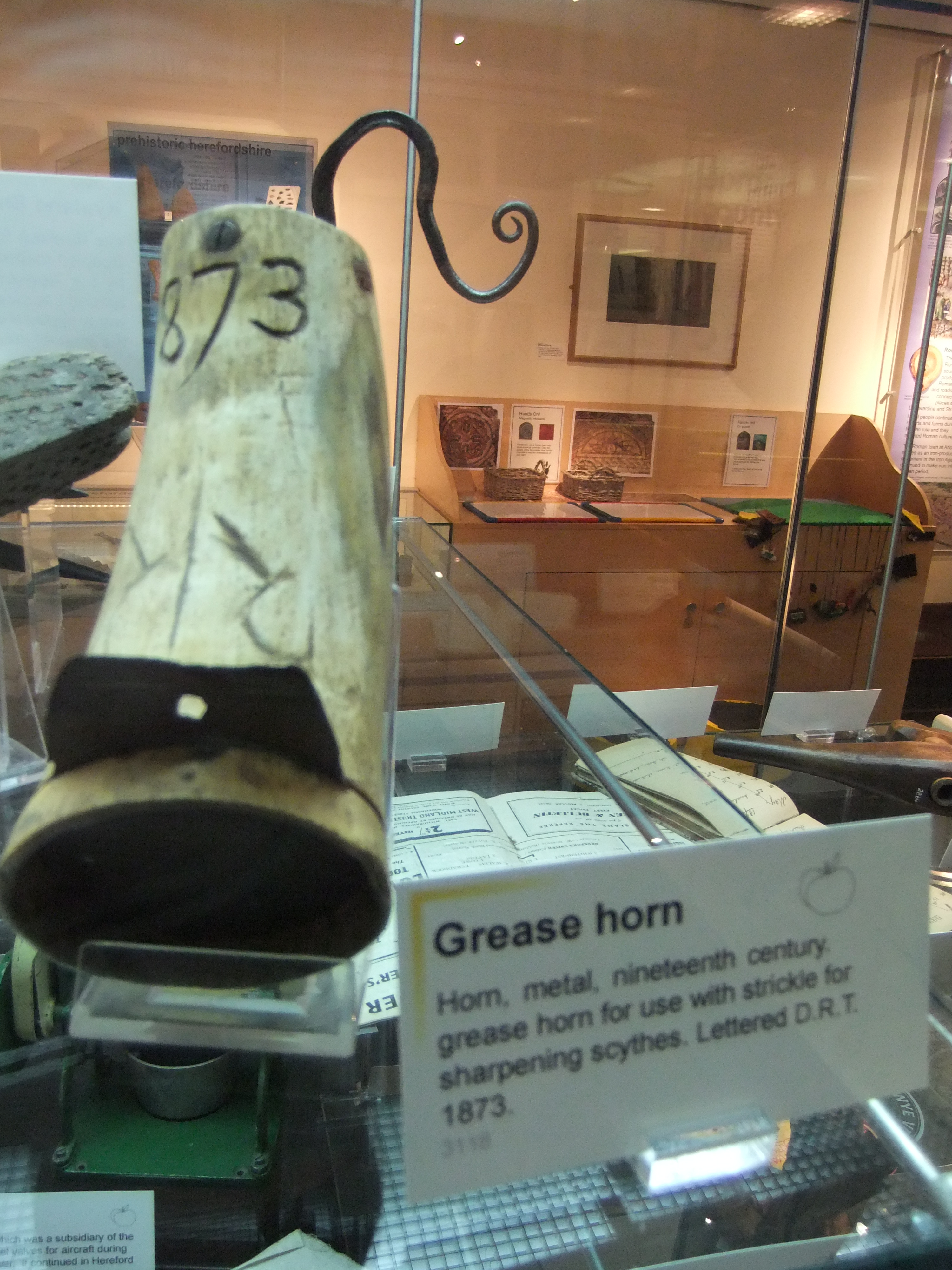 Grease horn. Photo taken at Hereford Museum and Art Gallery, England.